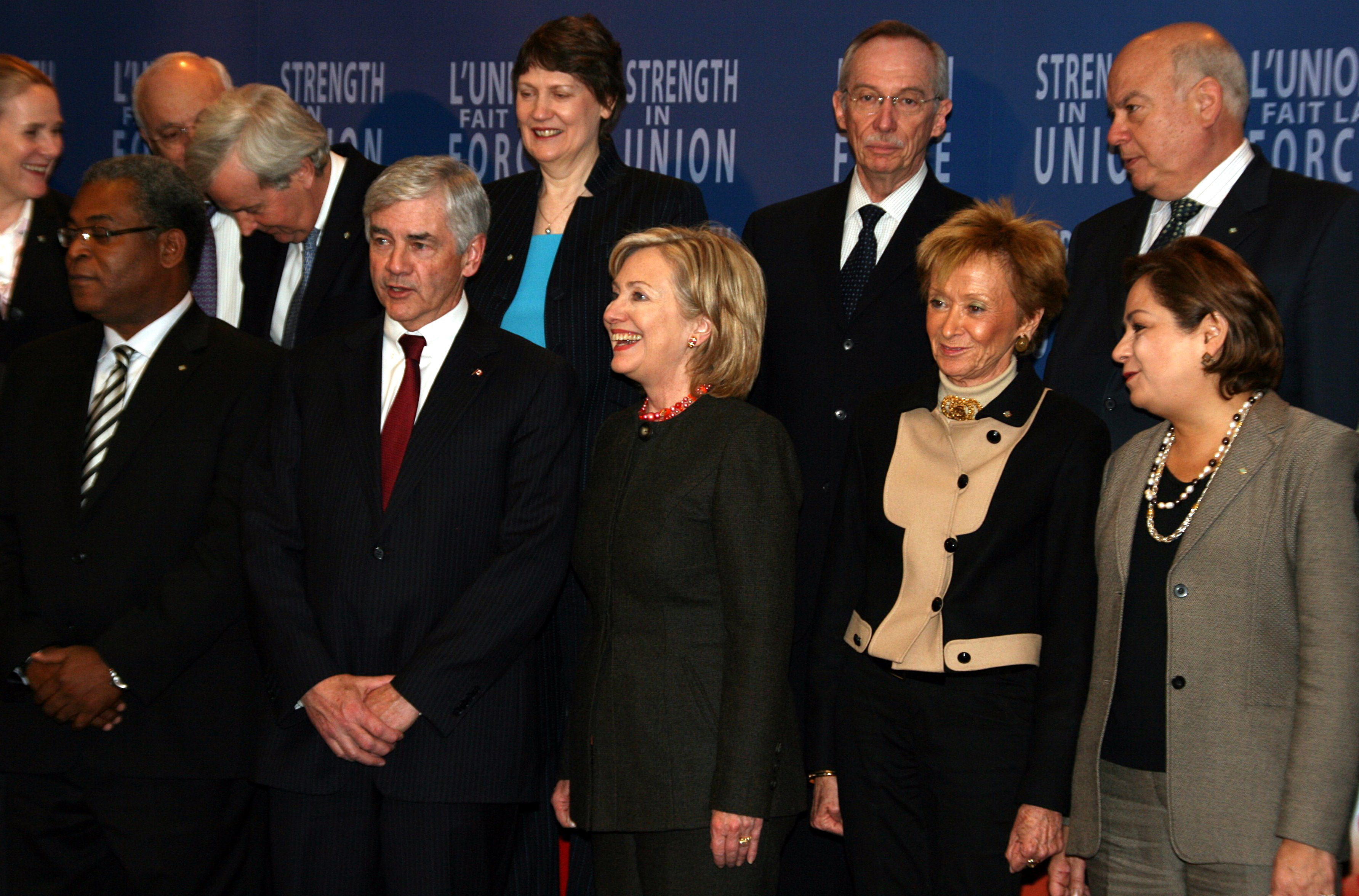 Secretary Clinton in group photo for attendees of meetings regarding the Haiti Earthquake hosted by the Government of Canada, in Montreal, Canada, Jan. 25, 2010. Embassy Photo/ Public Domain